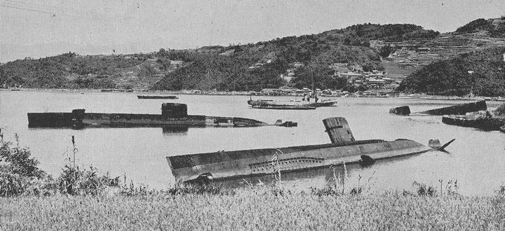 Japanese submarines at Sasebo Port following the end of World War II